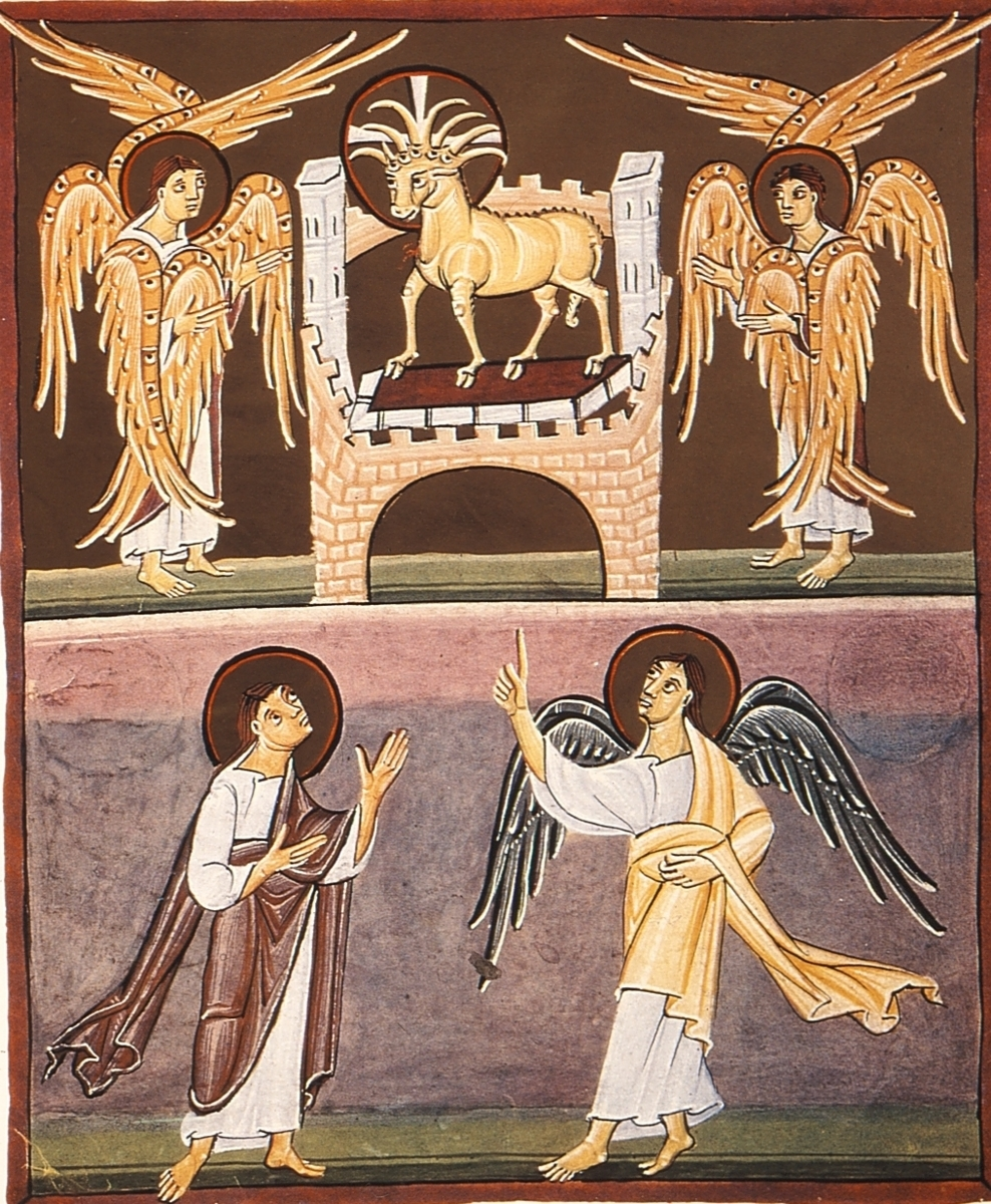 The Lamb with the Book with Seven Seals